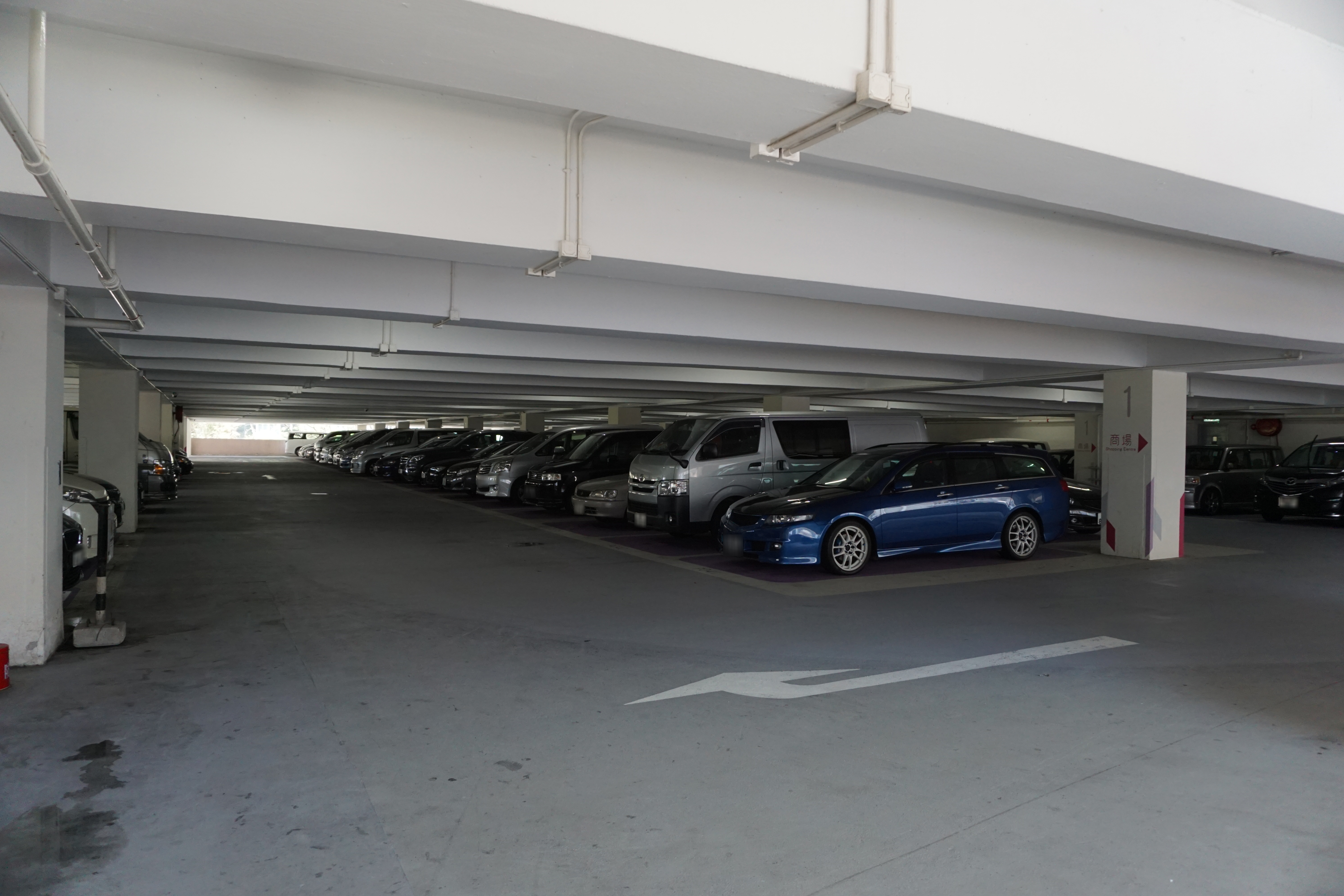 Un Chau Carpark in Cheung Sha Wan, Hong Kong.